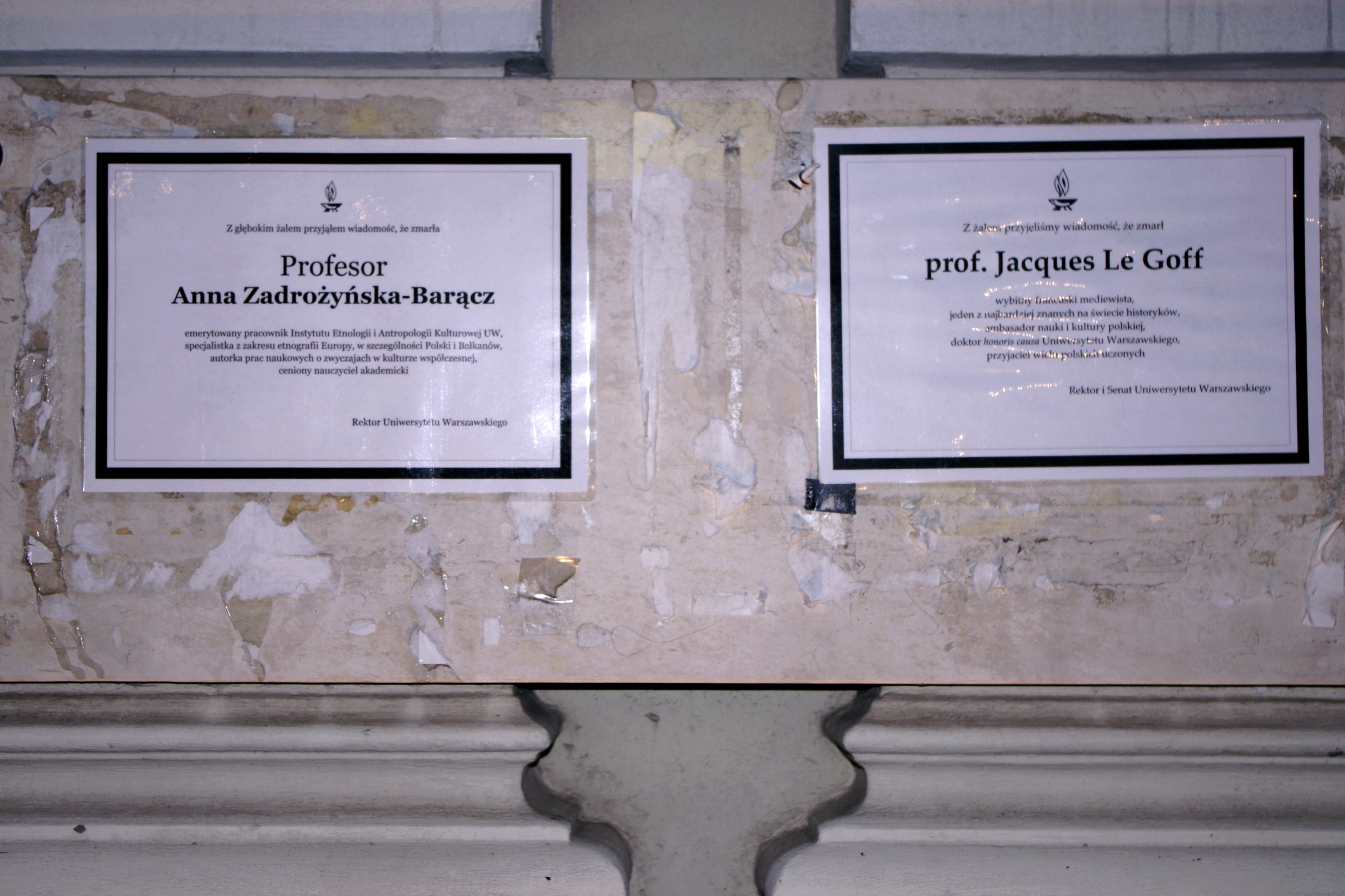 Death announcement for french historian Jacques Le Goff (dead on 1 April 2014) and polish ethnologist Anna Zadrożyńska (dead on 30 March 2014) put on display in Warsaw University.